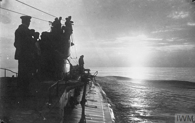 The German U-boat U-35 cruising in the Mediterranean, April 1917 - IWM Q 20380